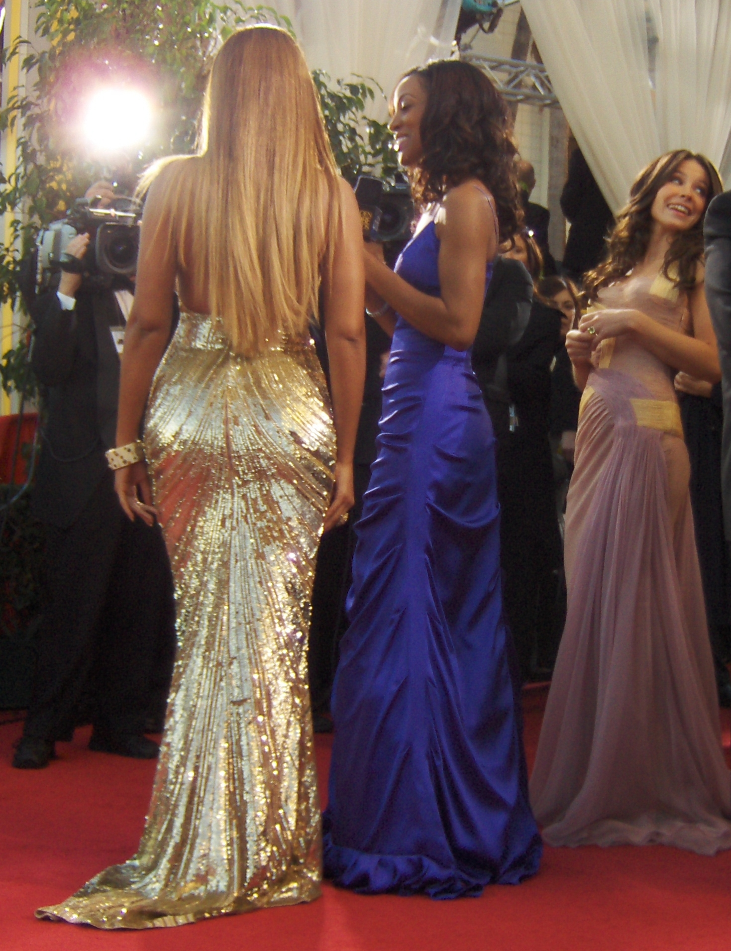 Beyoncé and Evangeline Lilly, Golden Globes, 2007.